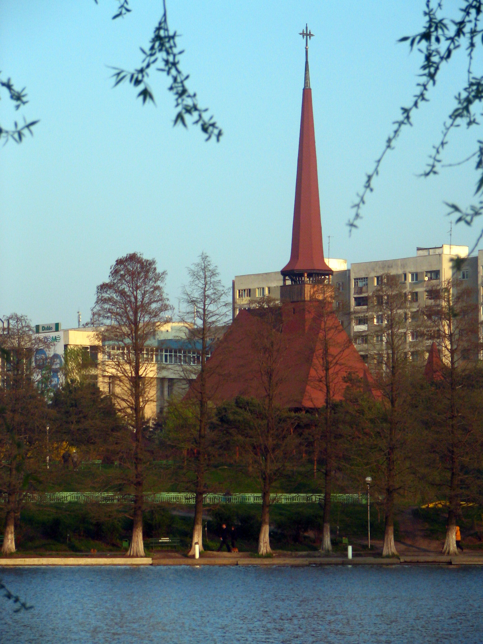 Biserica Pogorârea Sfântului Duh (Church of the Descent of the Holy Spirit) Titan, Bucureşti (Titan, Bucharest)